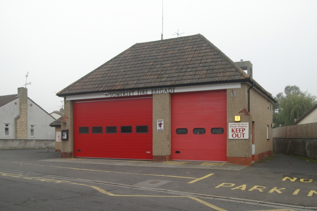 Cheddar fire station, The Hayes, Cheddar, Somerset